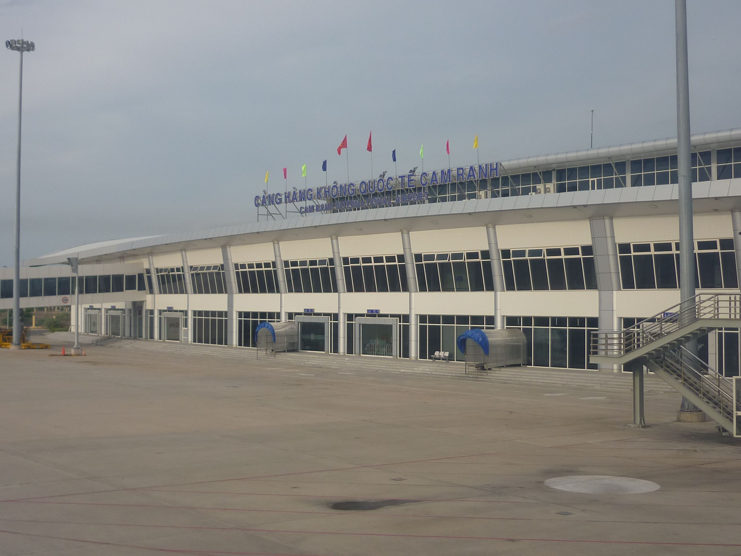 Cam Ranh International Airport, Vietnam